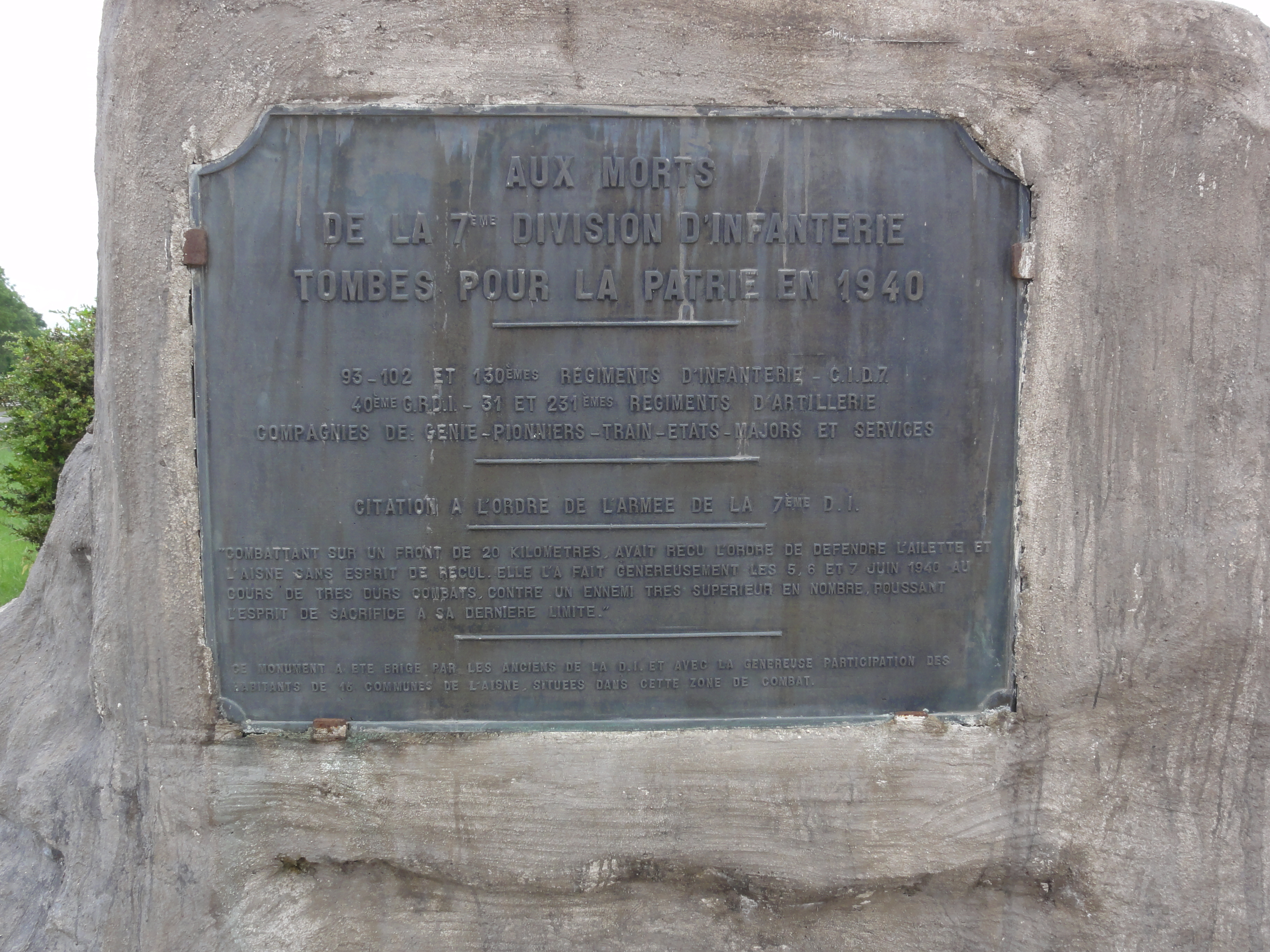 Leuilly-sous-Coucy (Aisne) memorial 7e D.I. , plaquette